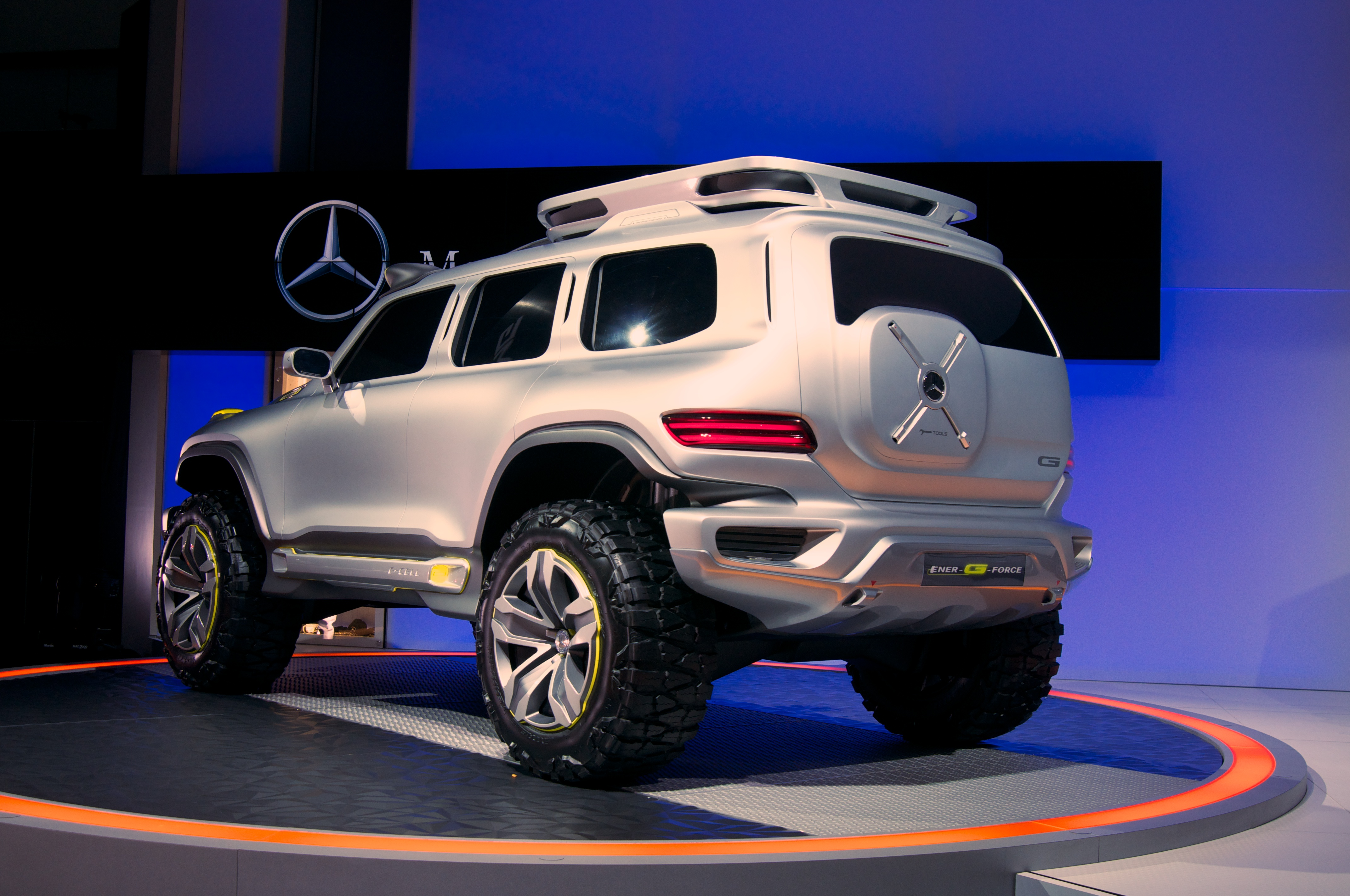 Mercedes Benz Ener-G-Force concept hydrogen fuel cell-powered vehicle at the 2012 Los Angeles Auto Show